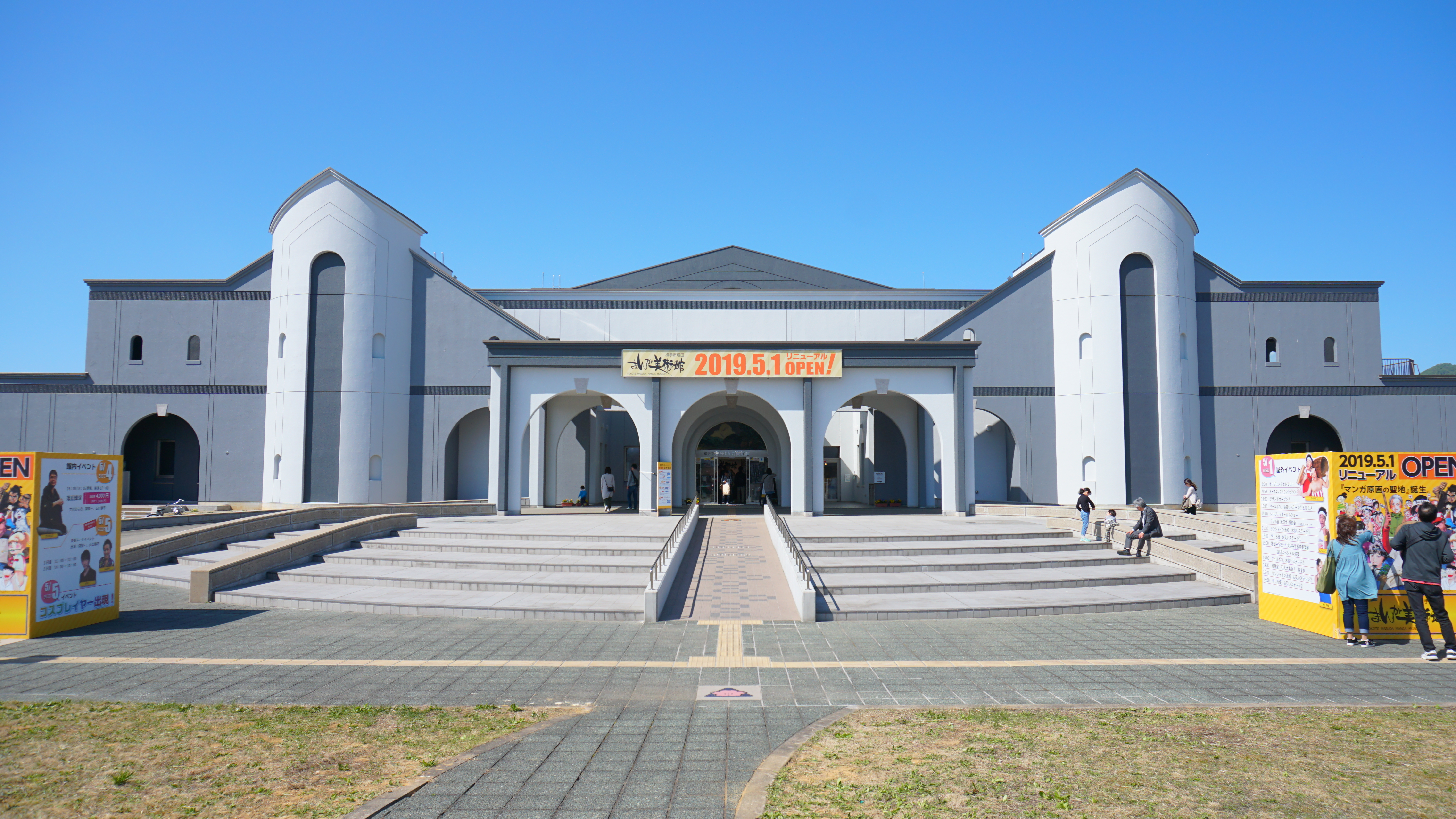 Yokote-Masuda Manga Museum is the museum of comics in Yokote, Akita, Japan